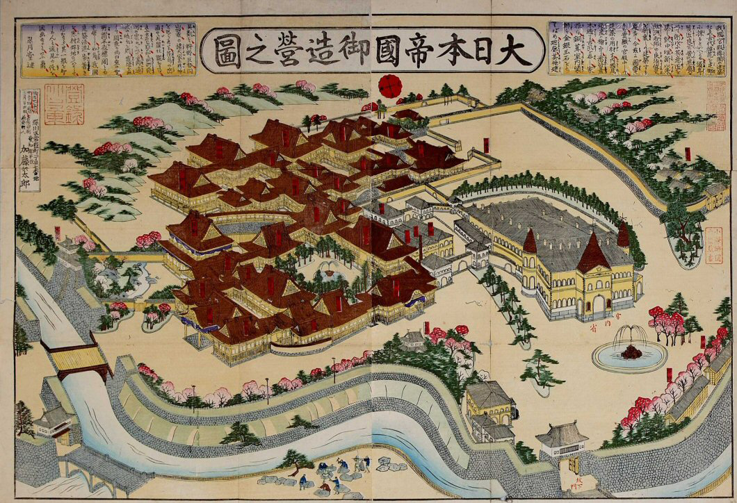 Bird's-eye view of the Meiji palace which was completed in October 1888.